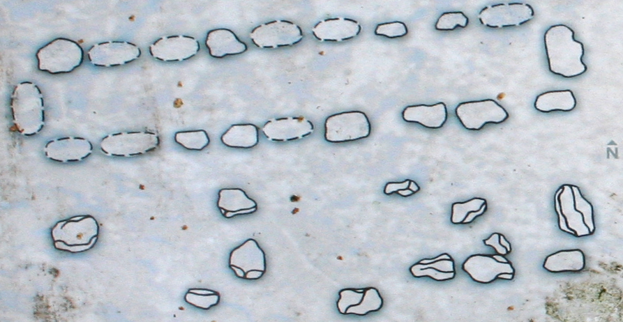 Megalithic tomb Huntlosen